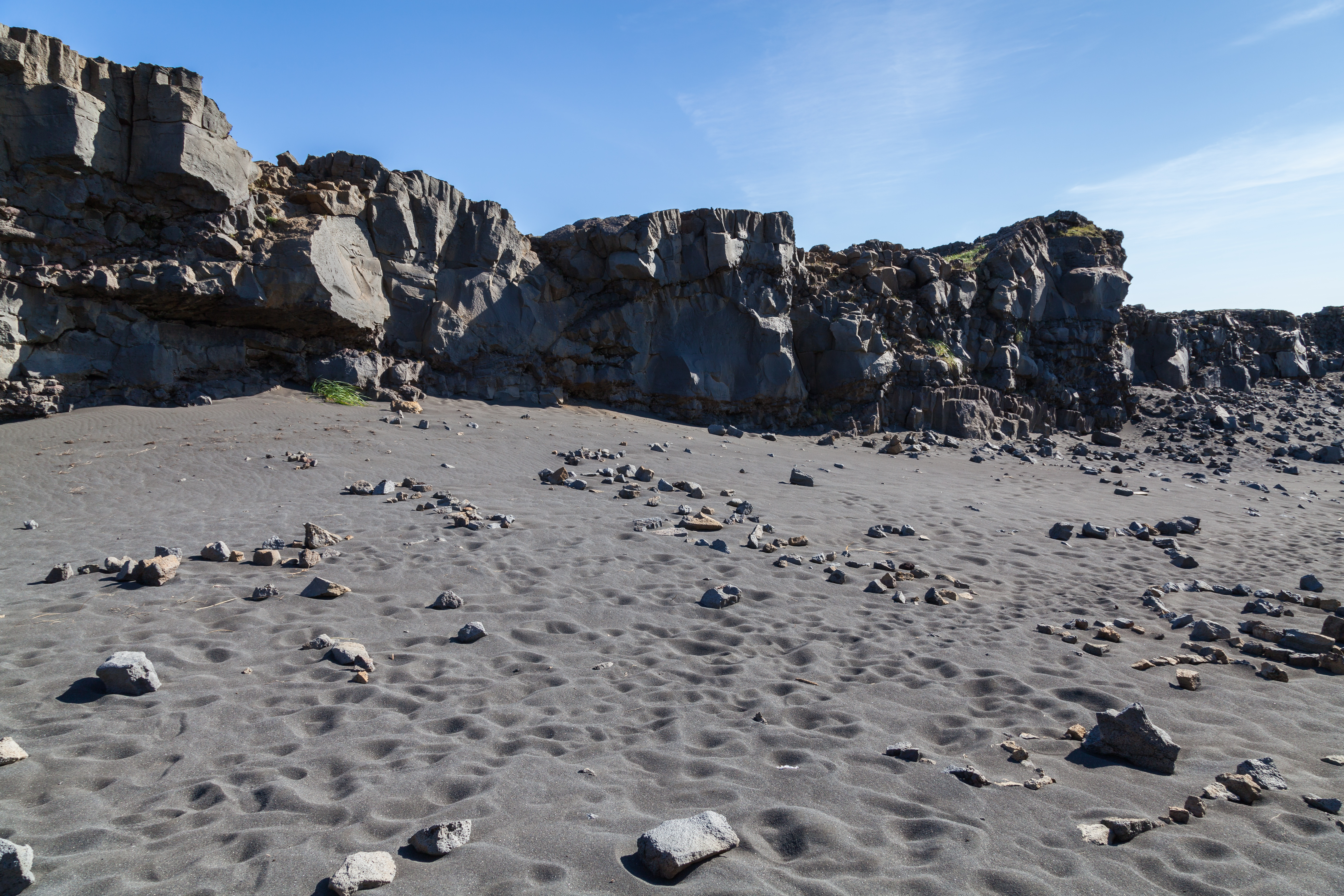 Tectonic plates of Eurasia and North America, Suðurnes, Iceland